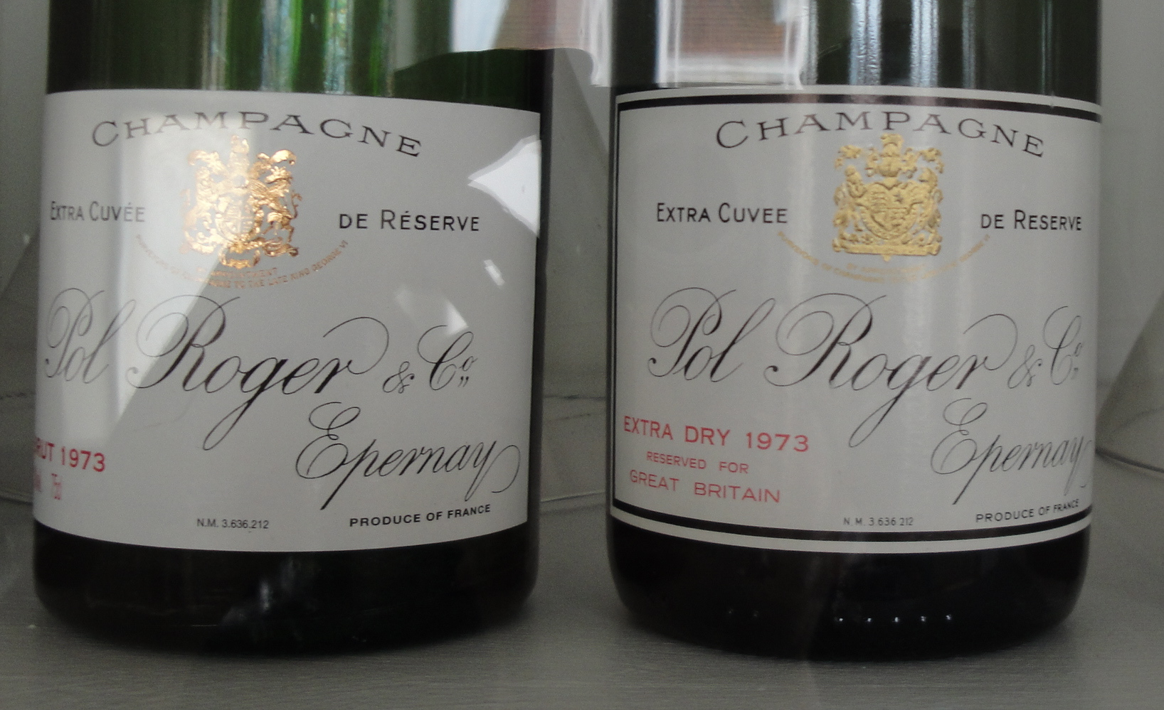 Pol Roger Champagne vintage 1973, comparison between bottle labelled for the UK (right) and non-UK (left) market. A black border was added to the UK labels following the death of Sir Winston Churchill, Pol Roger's favorite customer.